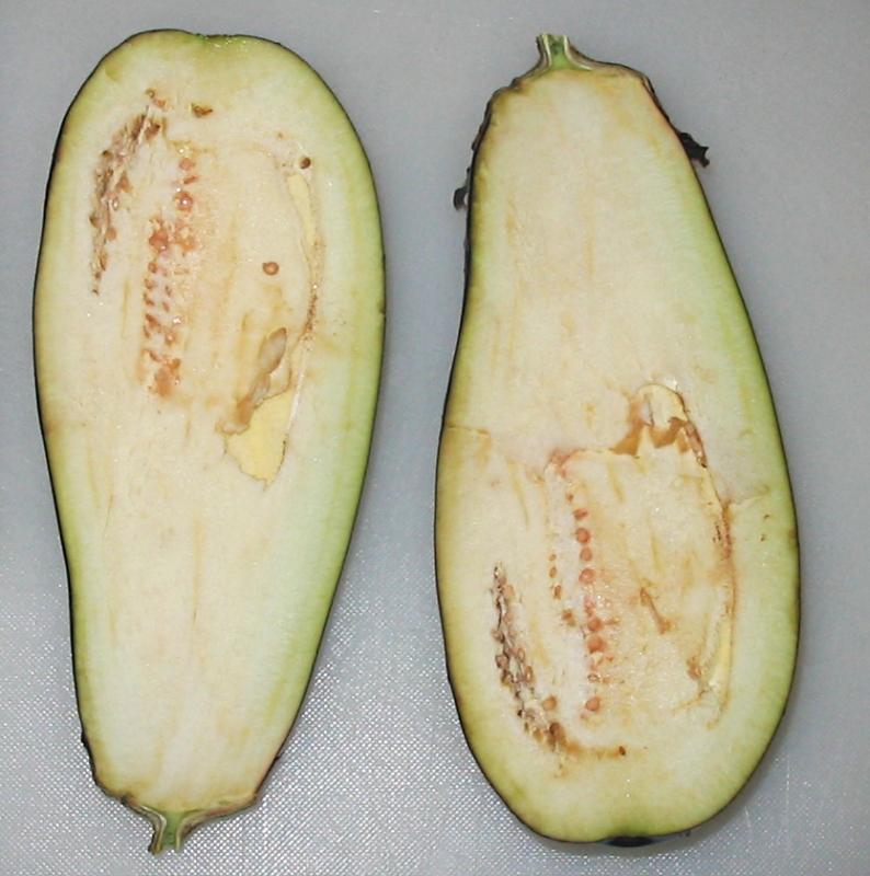 Description: An eggplant (probably Solanum melongena) sliced in half, with the insides facing up, on a cutting board. Although taken just a few moments after slicing, the flesh of the eggplant has already begun to oxidize a little. Although much of the flesh is smooth, many seeds can be seen at the widest part of the eggplant. In the eggplant, there are almost no seeds at the top but they become plentiful at the bottom. Source: My kitchen (self-made) Photographer/Painter: Kit O'Connell Todfox 08:04, 13 December 2005 (UTC) )